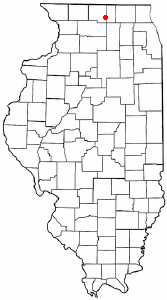 Category:Illinois city locator maps